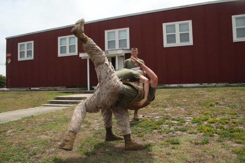 Lance Cpl. Joseph Sanchez, a reproduction specialist with 2nd MAW Combat Camera, practices a MCMAP hip throw on Lance Cpl. Nicholas Blackketter, an operations divisions training clerk with MWHS-2, during a MCMAP course led by Staff Sgt. Timothy Hopkins, a Marine Corps Martial Arts Program black belt. Hopkins taught the two-week course to 2nd MAW Marines to advance in their belts from gray to green or green to brown.